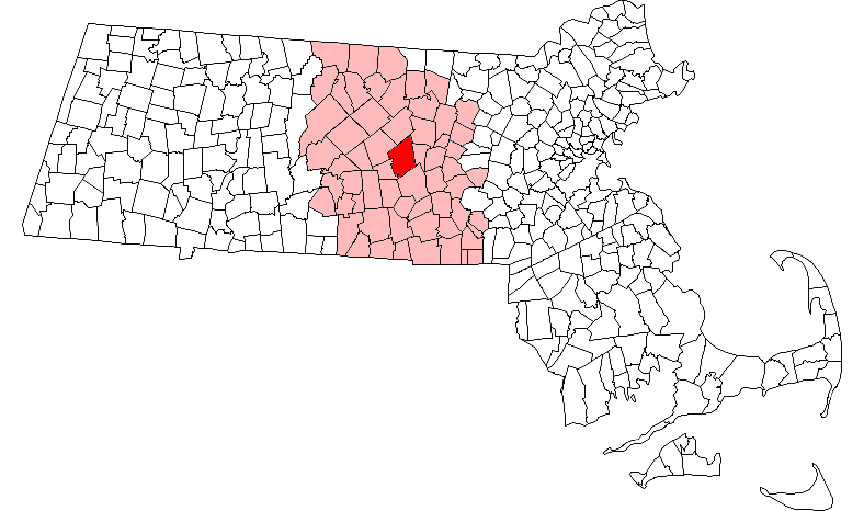 Map of Massachusetts towns with Holden highlighted